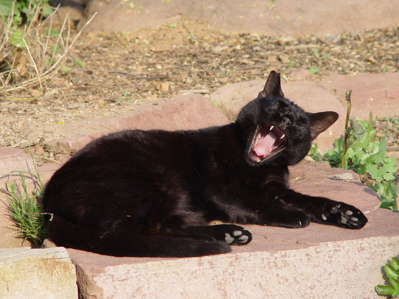 A black cat yawning, Valencia